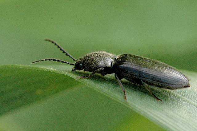 Picture taken in Commanster, Belgian High Ardennes . Species: Agriotes gallicus